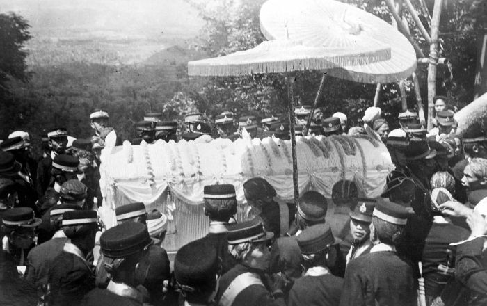 (note not direct translation of above) - The burial of Pakubuwono X in February 1939 at Imogiri